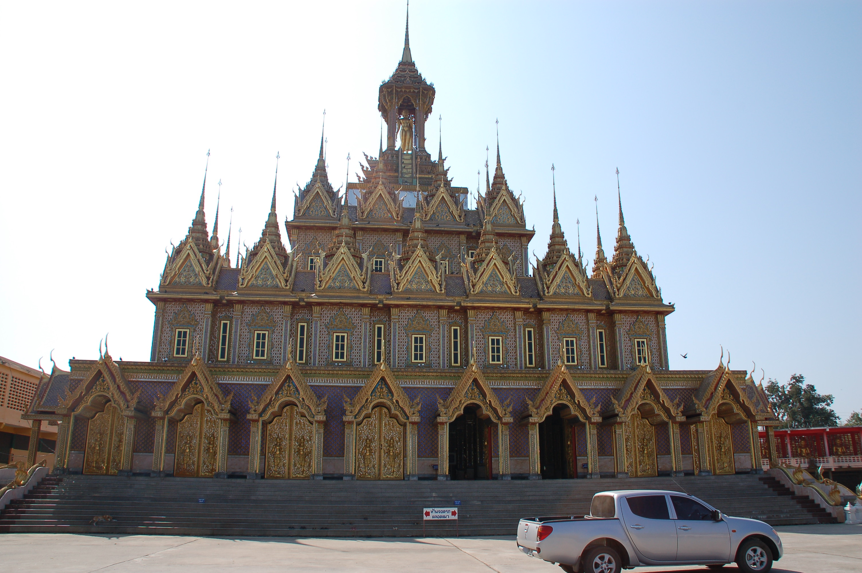 Wat Tha Sung